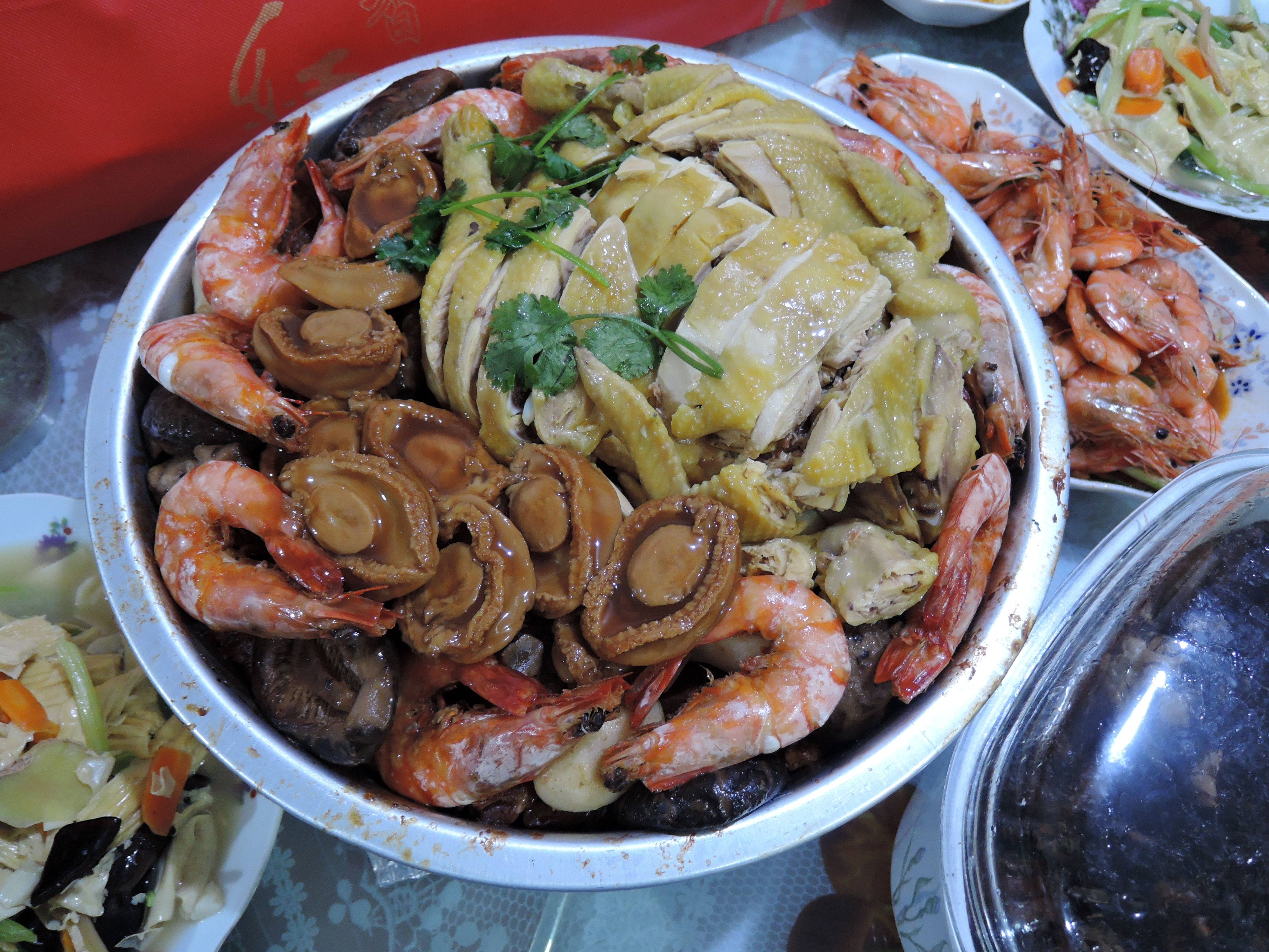 Local Cantonese pun choi in Chinese new year at village home in yuen long